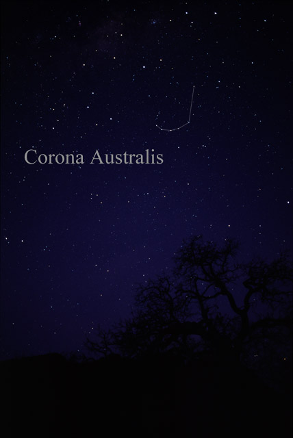 Photo of the constellation Corona Australis, the Southern Crown